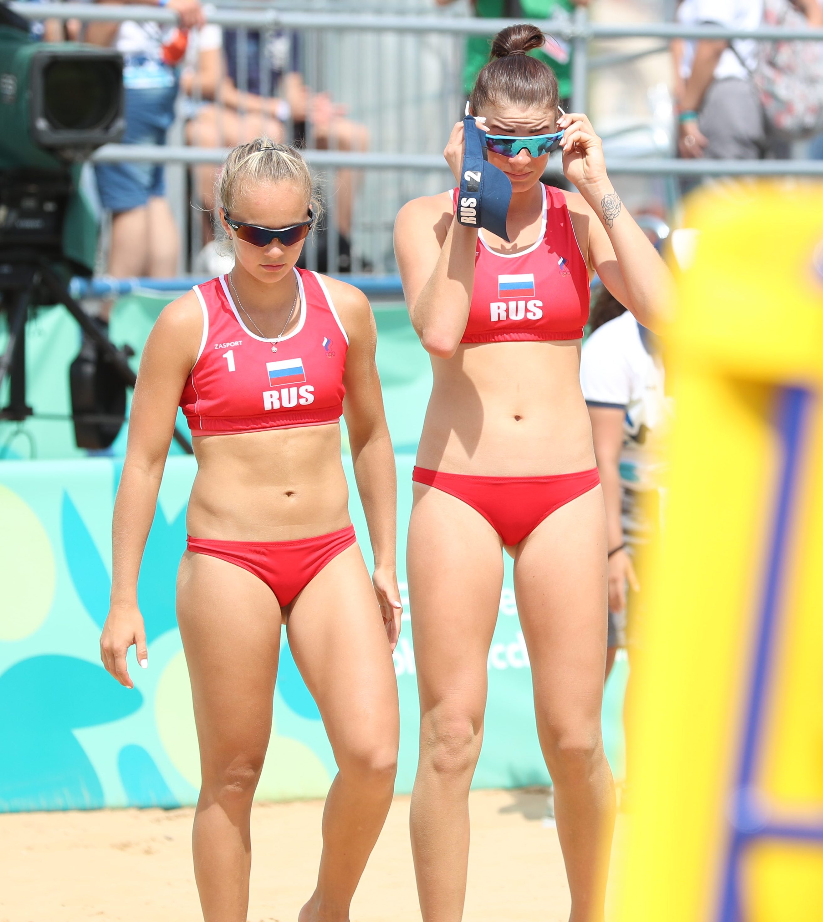 Girls' Beach volleyball: Finale/Gold medal match